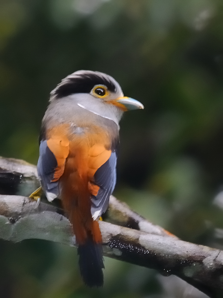 A female silver breasted broadbill (serilophus lunatus)